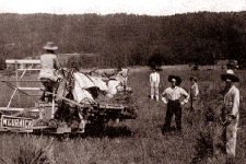 McCormick Harvester and Binder of 1876 at work in the field -the first practical self-binder ever built